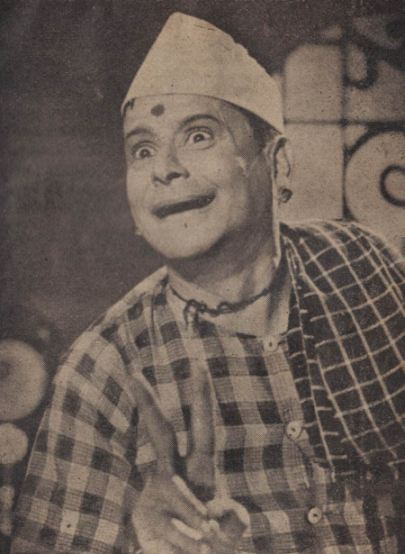 K. Sarangapani (1904 - ), South Indian Tamil actor, in Mohana Sundaram, a 1951 Tamil film.